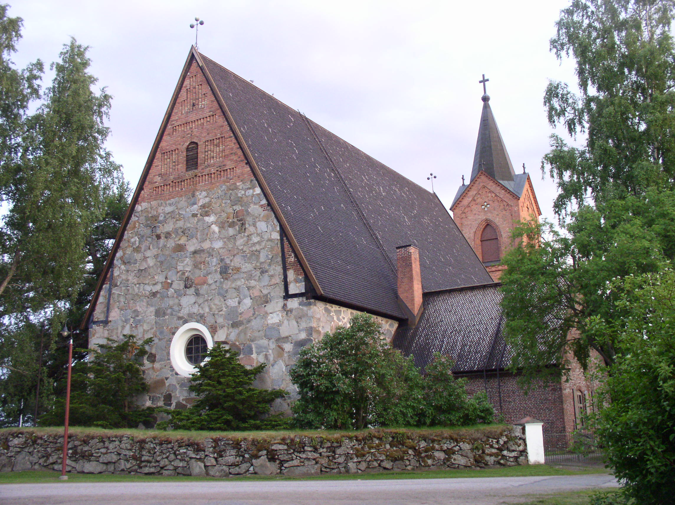 Hauho church in Hämeenlinna, Finland.